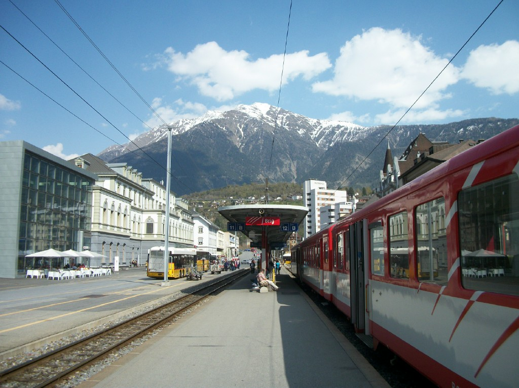 Matterhorn Gotthard Railways‘ (MGB) stop in Brig, Switzerland, next to SBB‘s railway station (left) with the Fülhorn (2738m a.s.l.) in the back